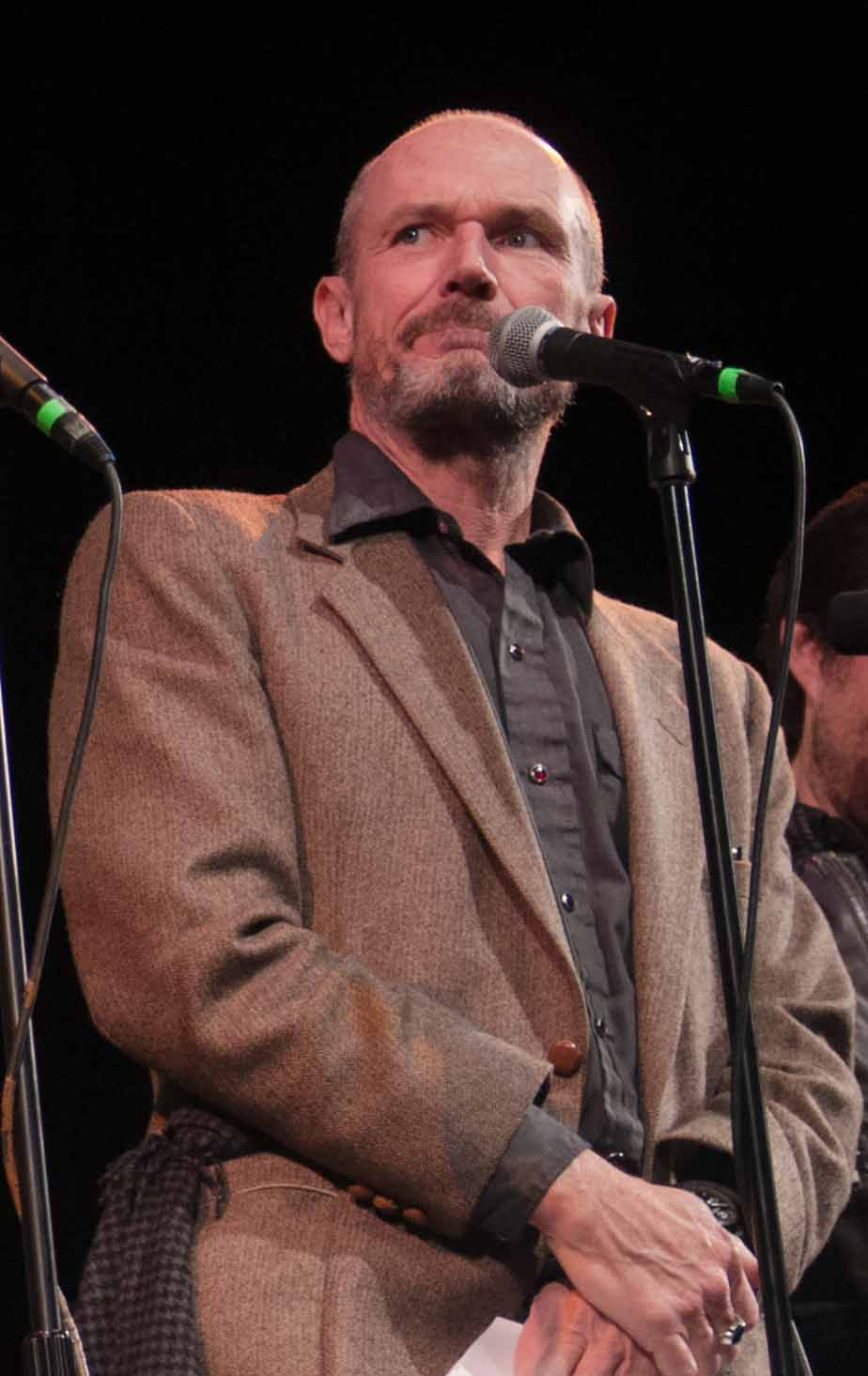 From left to right: Actors Danny Tamberelli, Michael C. Maronna, Toby Huss and Rick Gomez during the Pete & Pete Forever event at SF Sketchfest, on January 15, 2016 in San Francisco, CA, US.